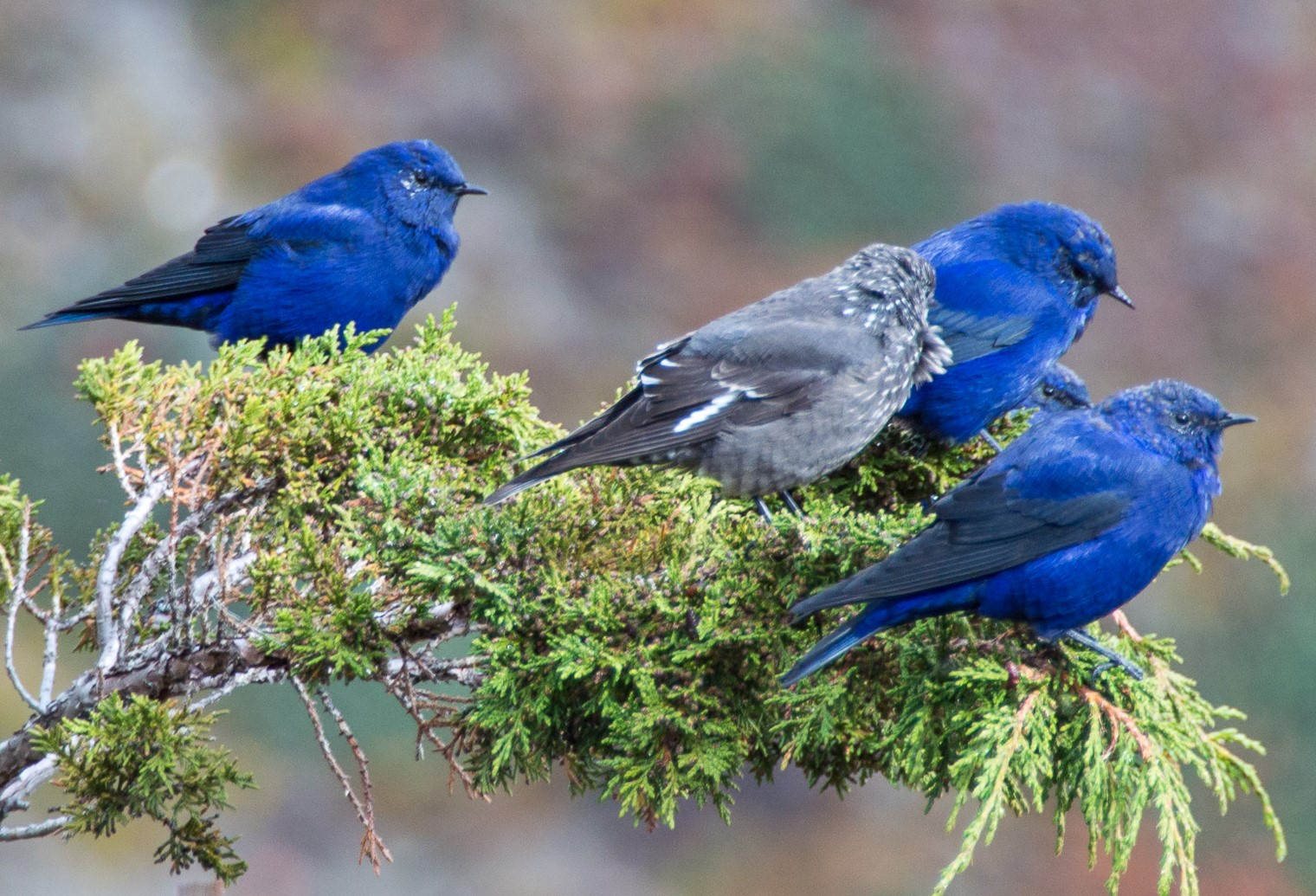 Three blue males and a grey female of Grandalas (Grandala coelicolor)